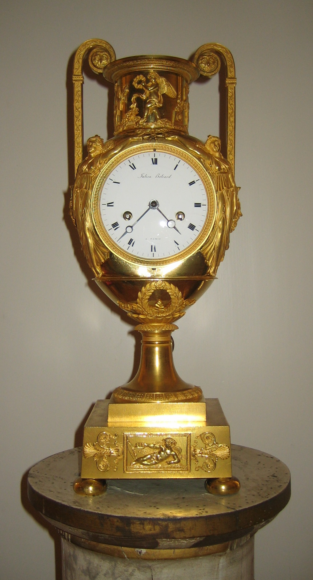 Mantel clock (pendulum clock) with mercurial gilding in the shape of an urn (around 1800) by Julien Béliard, Paris, maître horloger (clockmaker) recorded on the rue Saint-Benôit and rue Pavée in 1777, still active in 1817, or Julien-Antoine Béliard, maître horloger in 1786, recorded on the rue de Hurepoix, 1787-1806. Mantle clocks made by Julien Béliard are part of the collection of the Louvre Museum in Paris.